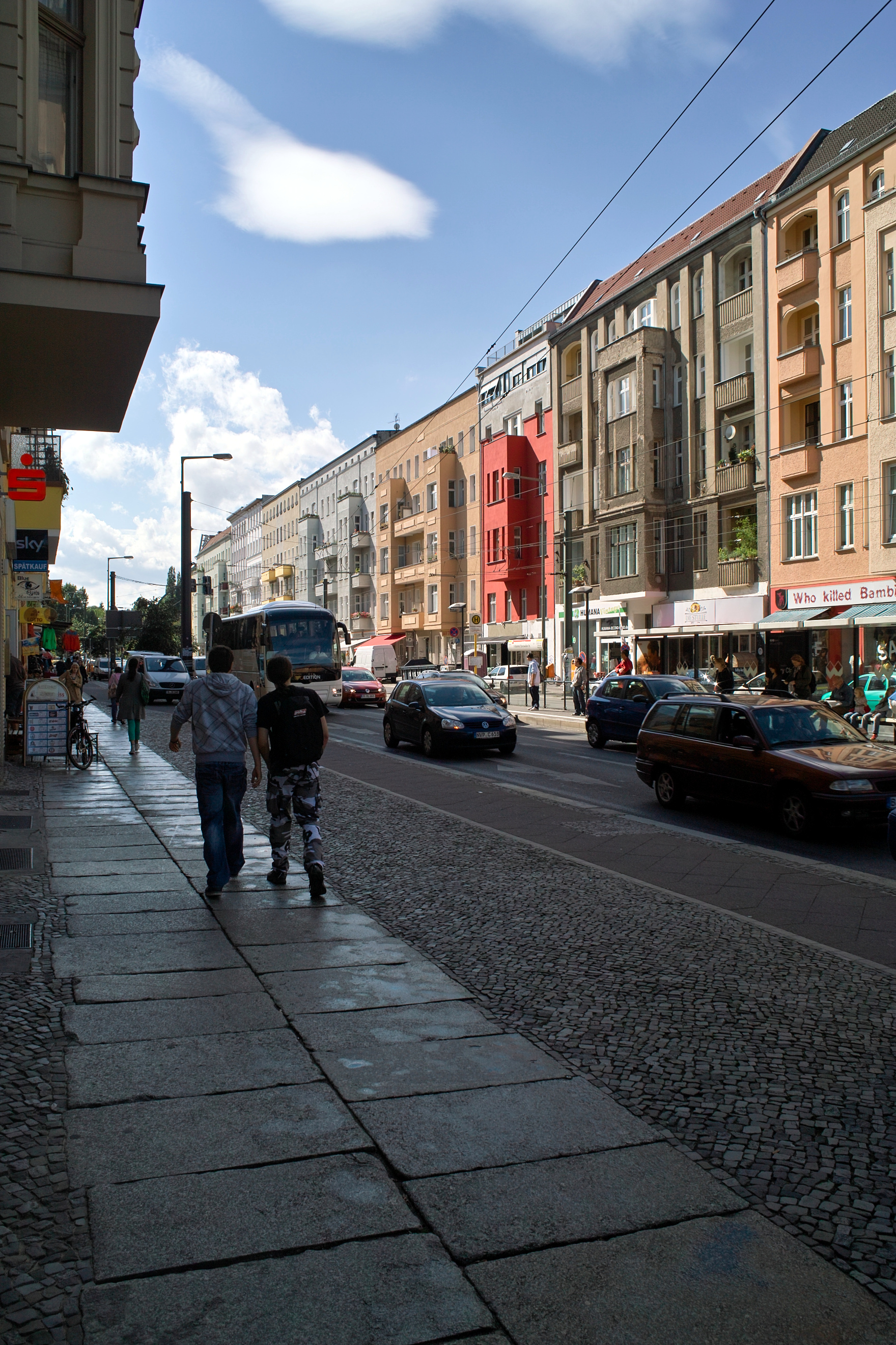 Eberswalder Straße, Berlin 2012